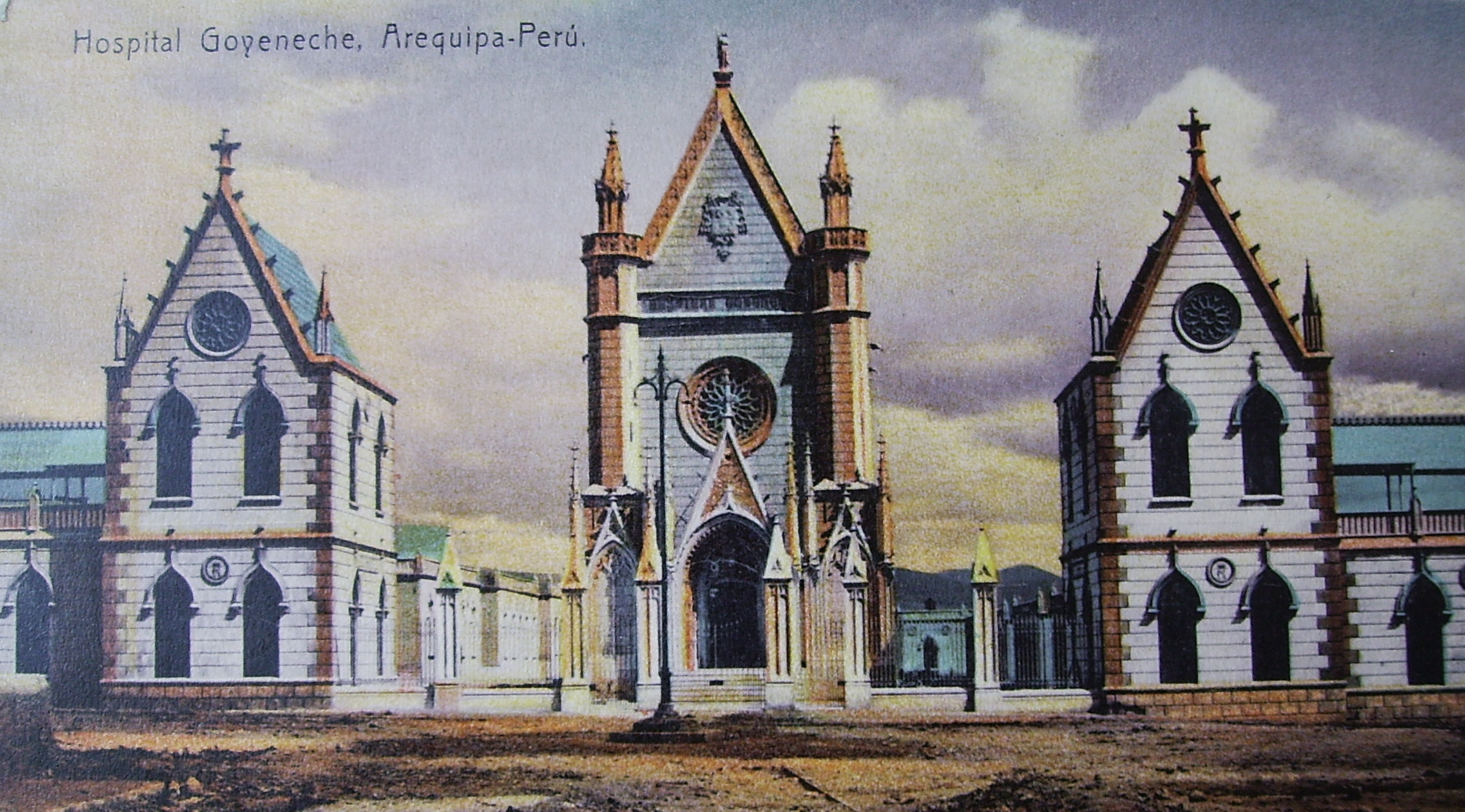 Goyeneche Hospital. Arequipa (Peru)